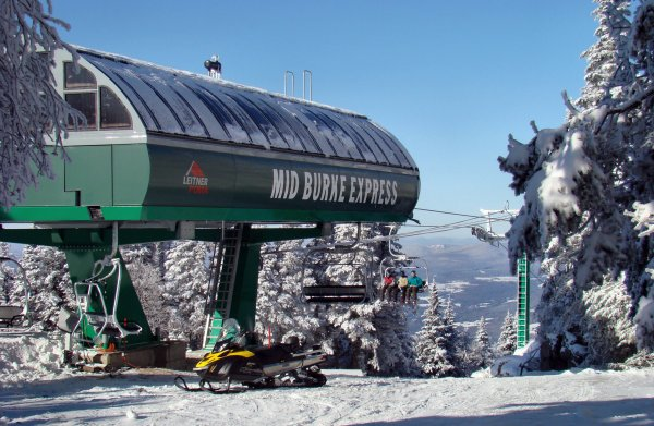 The summit terminal of Burke Mountain's High Speed Quad (Mid-Burke Express)